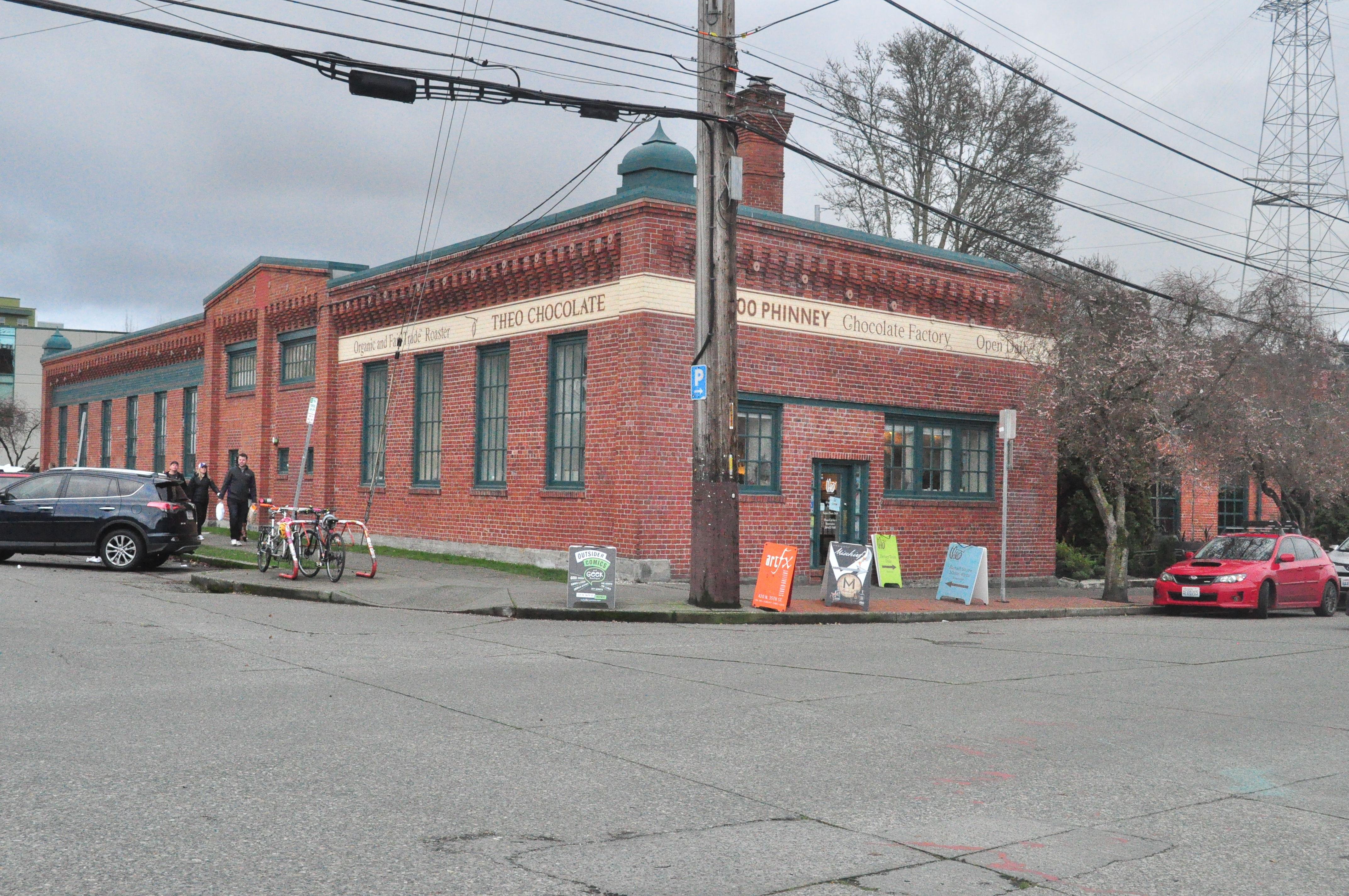 This 1905 building in Fremont, Seattle, Washington was originally (1905–1941) a trolley barn. From the 1940s to the 1980s, it contained Seattle Disposal's offices, storage, and a facility to repair garbage trucks. In 1983–4, Pacific Rim Export used the building for offices and a warehouse. 1988–2000 it was the Redhook Brewery (later relocated to a larger custom-built facility Woodinville, Washington); from 2004 it has contained, among other things, the Theo chocolate factory. (Most of this can be verified at [1]). The building is a Seattle landmark. Theo Chocolate retail shop and part of the factory, seen from the northwest.